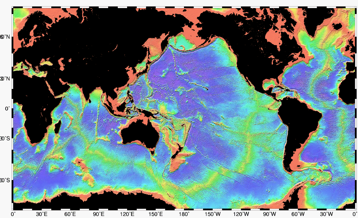 Map of the mid-ocean ridge system (yellow-green) in the Earth’s oceans.